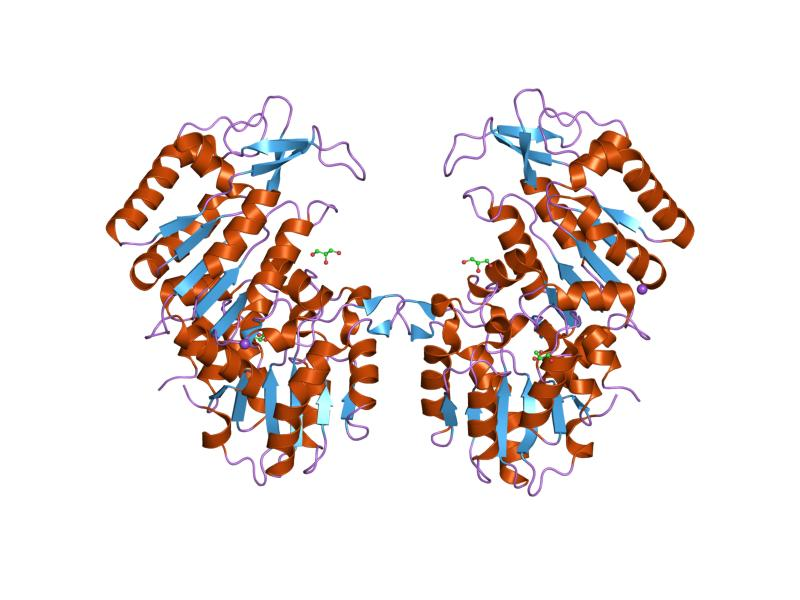 Cartoon representation of the molecular structure of protein registered with 1v6s code.